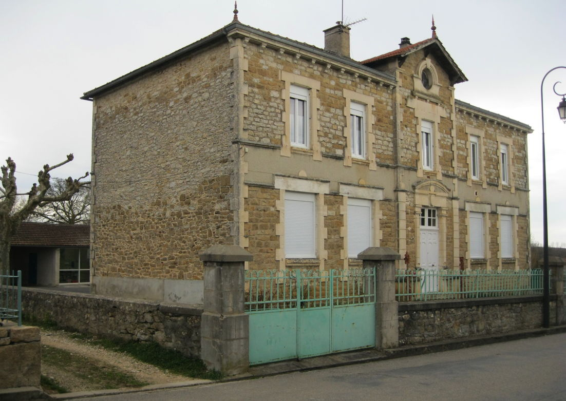 Outside view of the primary school building in Miers (Lot - France).